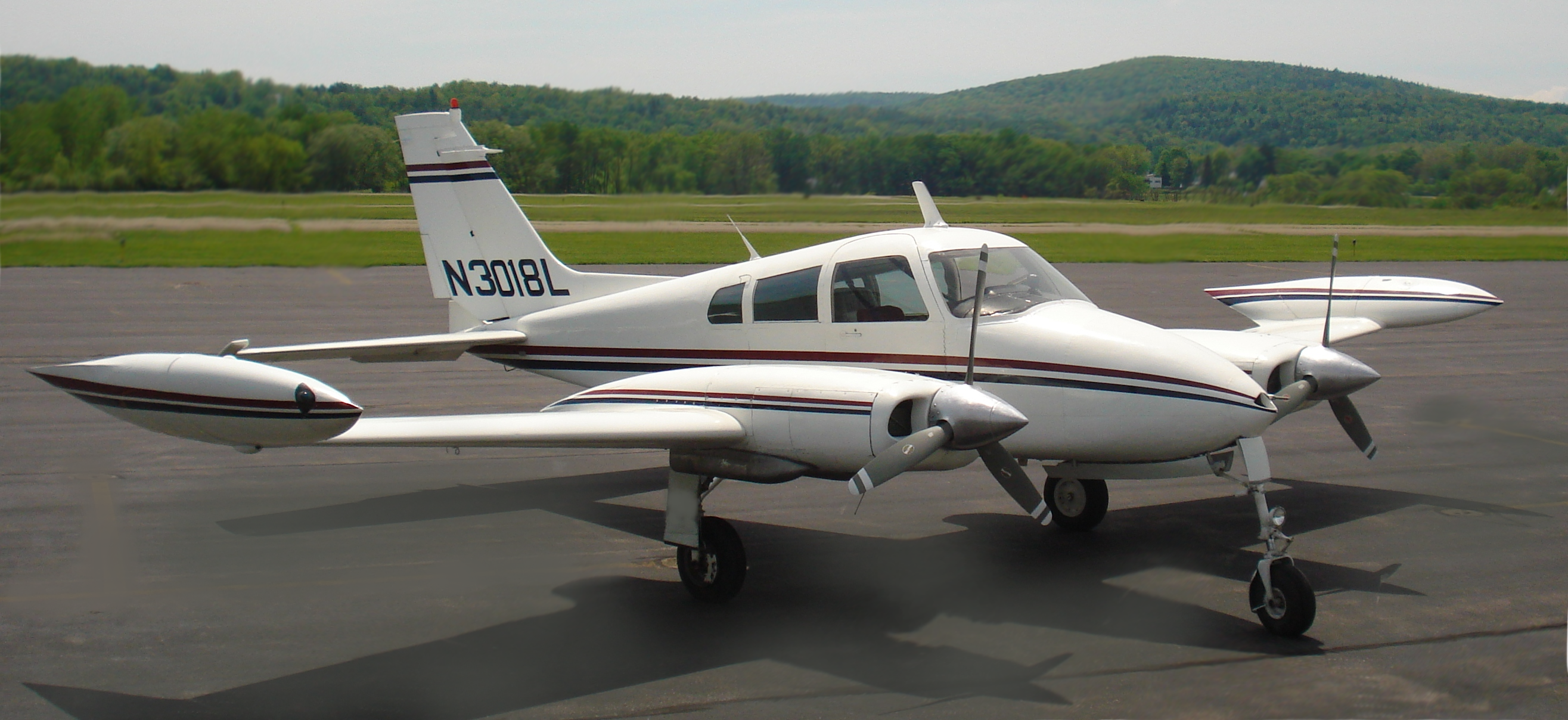 Picture of Patrick Harris Aeromation Cessna 310 310J N3018l